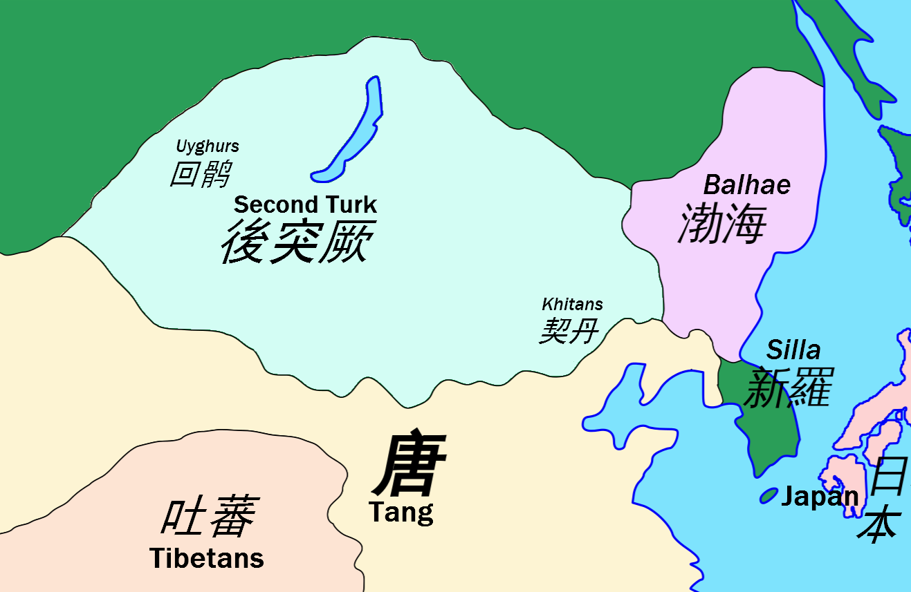 Map of the Second Turkic Khaganate during the 8th Century, in Chinese and English.